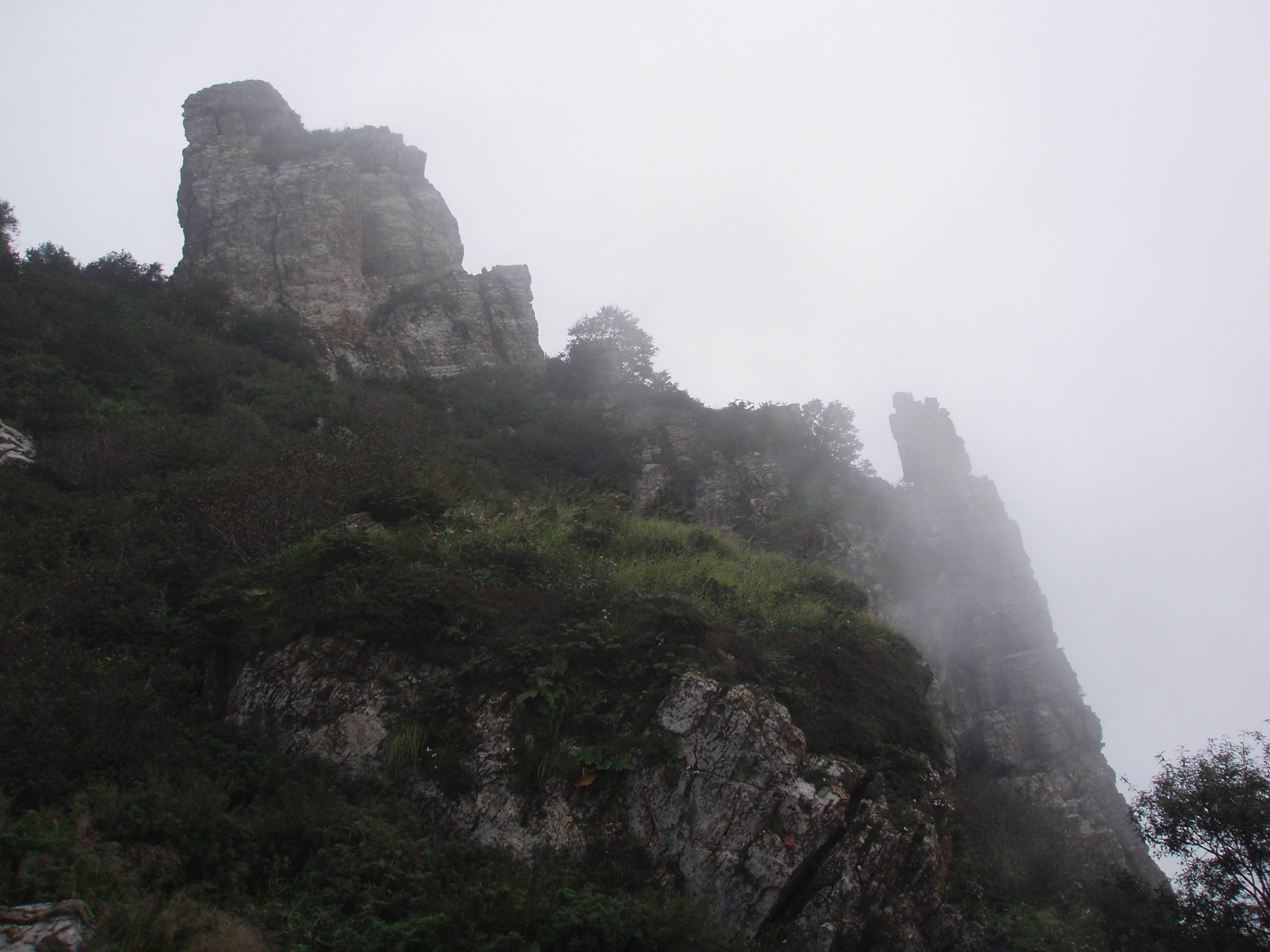 Taihang Shan Mountains in North China